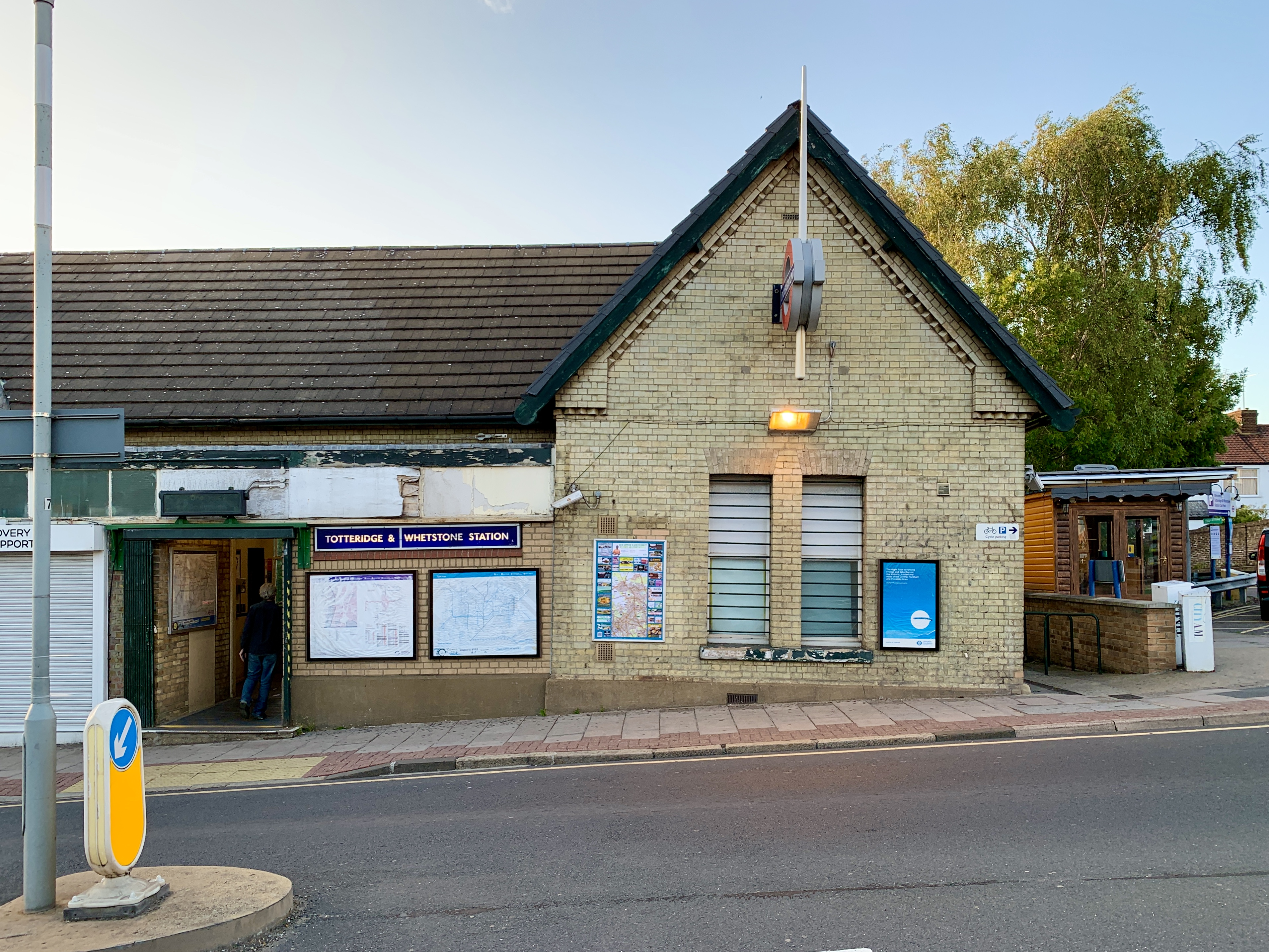 Station building of Totteridge & Whetstone tube station. Taken during my Northern Line Tube Walk.